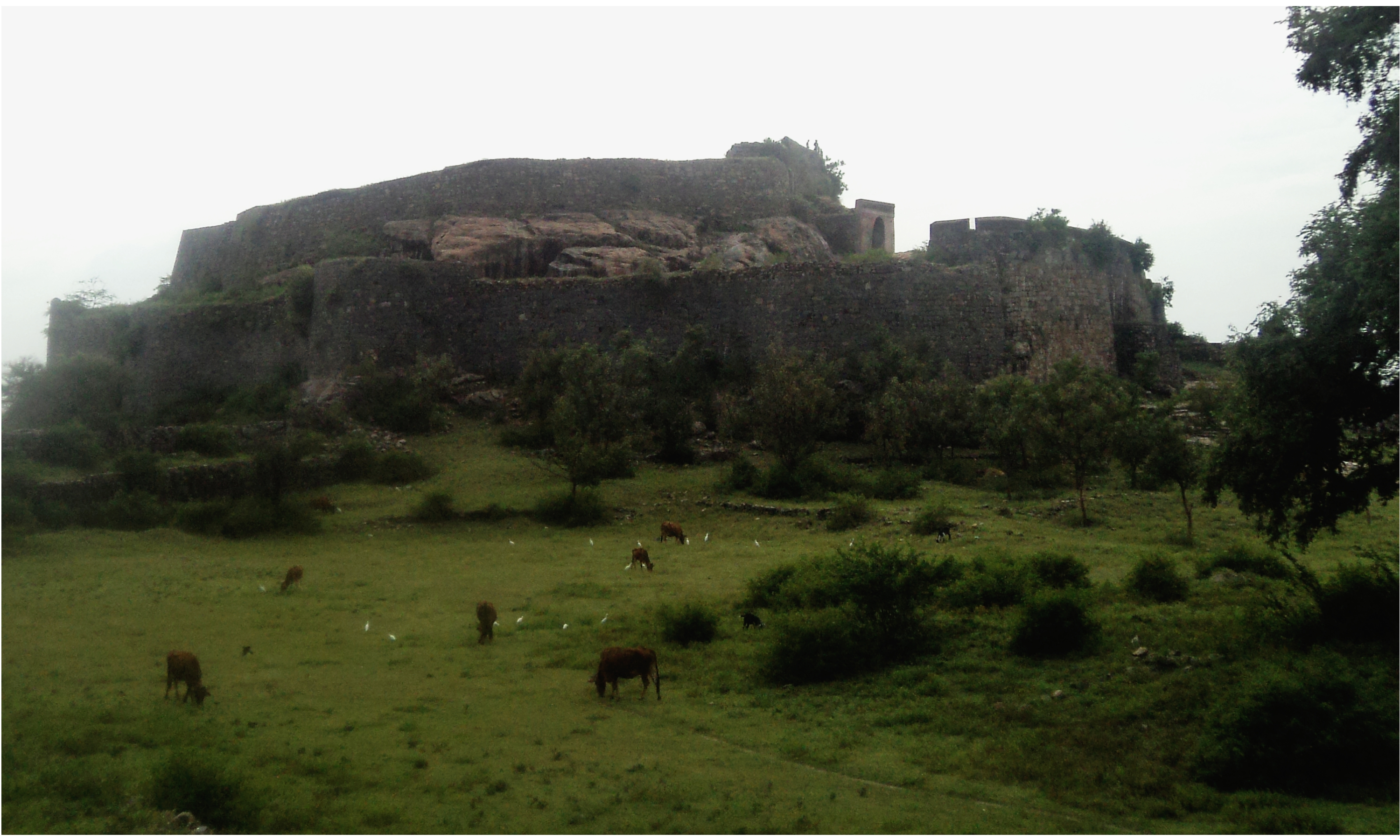 The Fort was built by a Jagirdar under Nawab of Carnatic in 17th century A.D. The Fort walls are built with neatly cut stone blocks. There are three fortification walls at different heights and the bottom most is the main rampart. It is oblong on plan with semi circular bastions and encircled by a moat fed by a tank on the Southern side. The fort contains a palace, residential buildings, underground chambers, mosque and flag mast. The fort was the scene of the battle of Valikondah between the English and Mohammad Ali on one side and Chanda Sahib and the French on the other side in 1751 AD. This fort is under protection of the Archaeological survey of India.